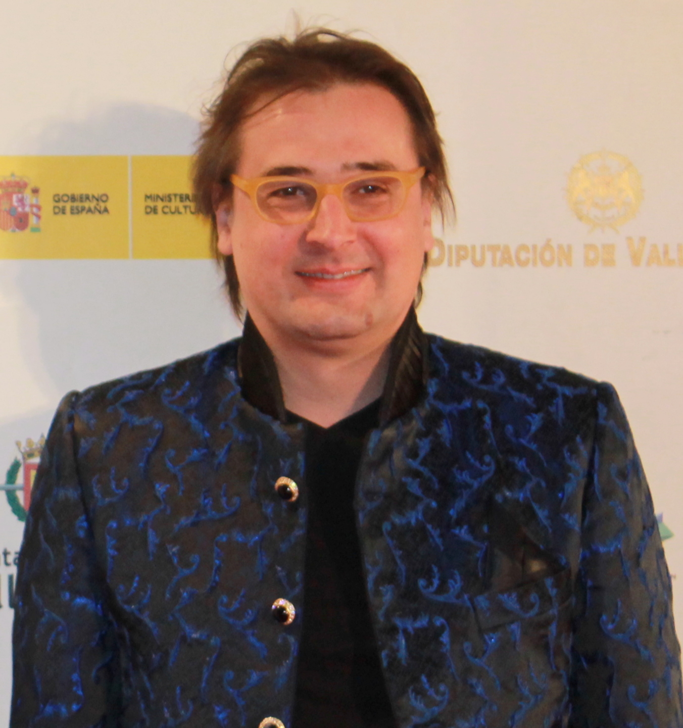 Volker Goetze, German trumpeter.